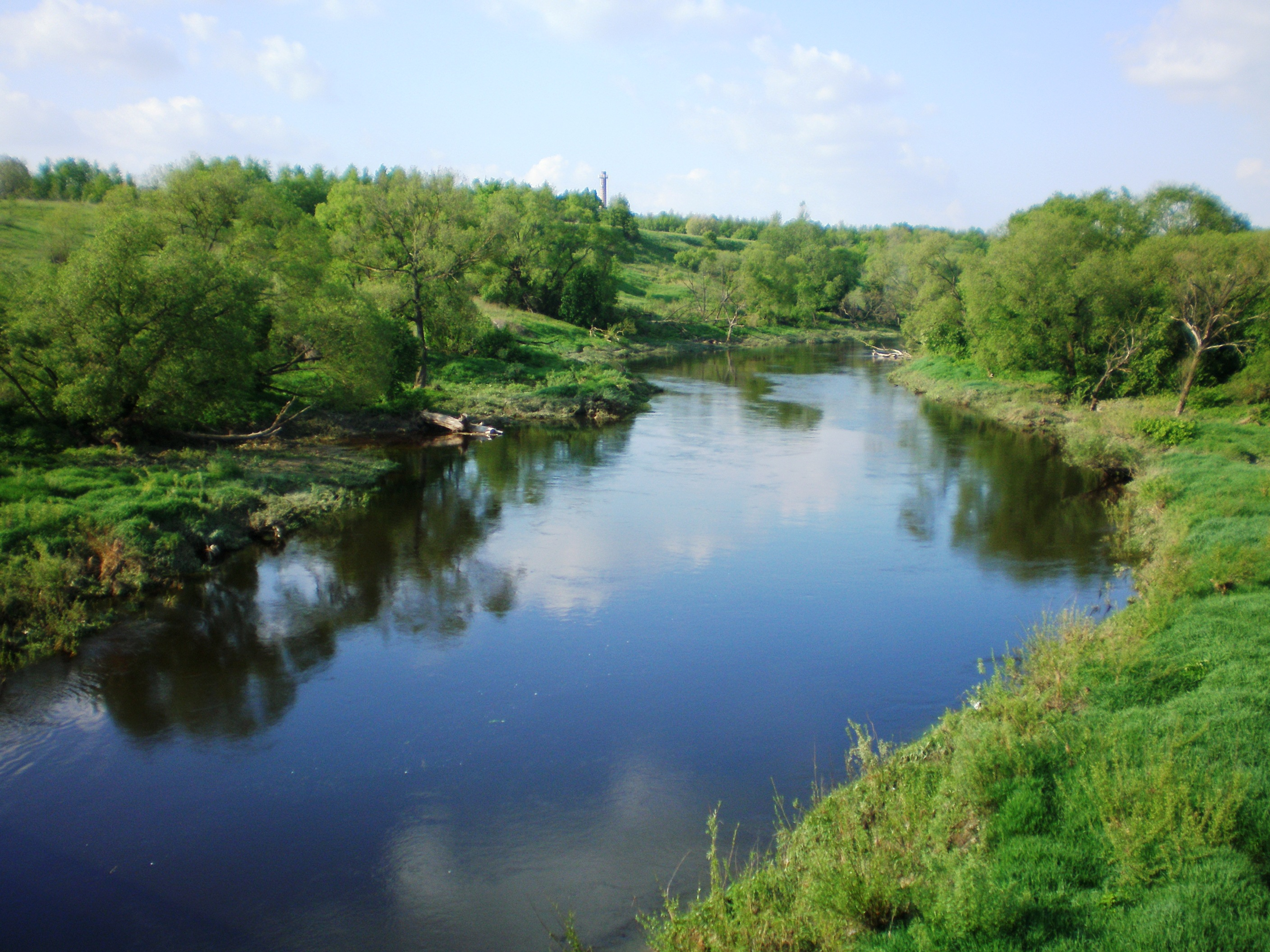 River Nevėžis near Kėdainiai city